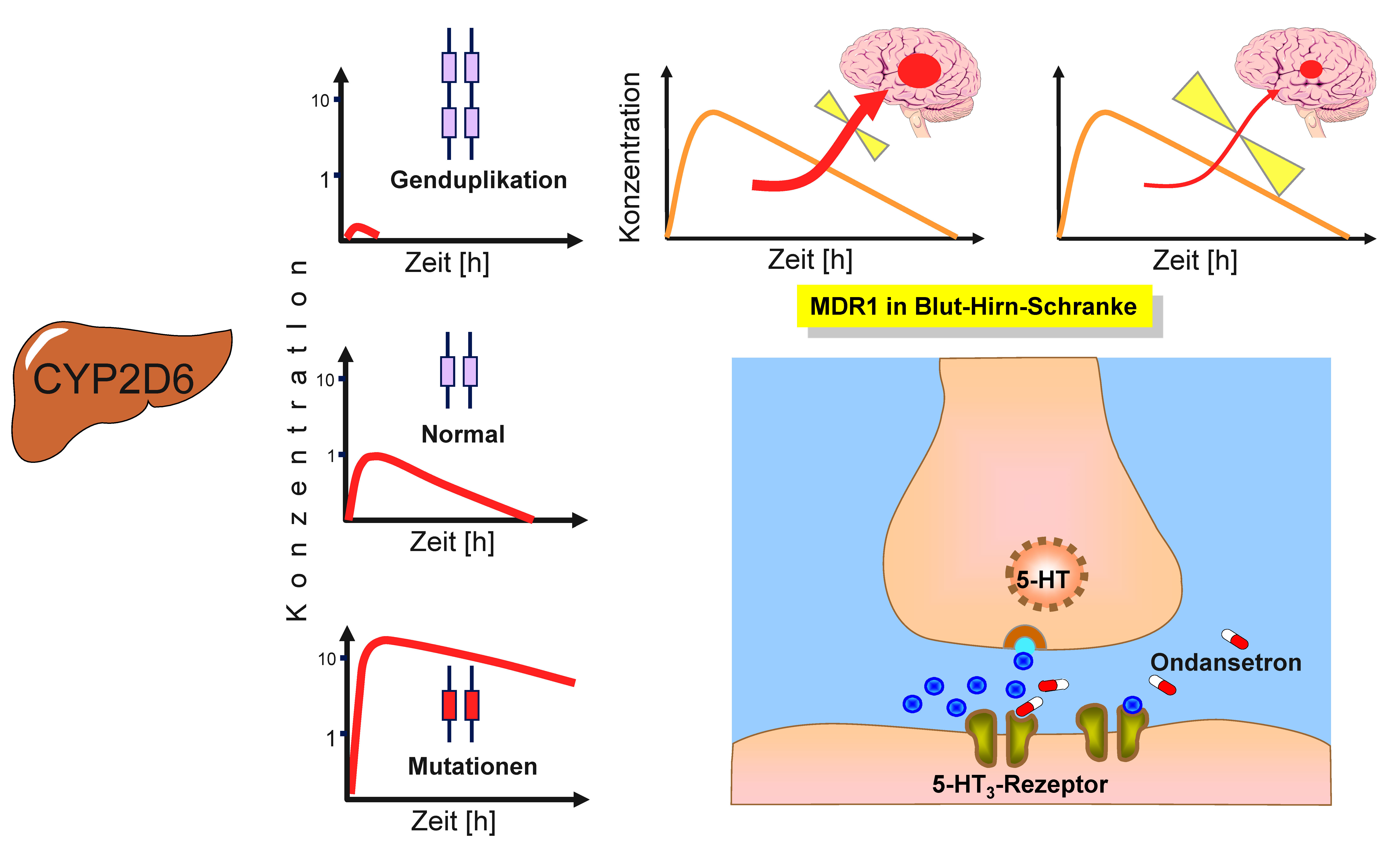 Fate of ondansetron in liver, blood-brain barrier, receptor interaction